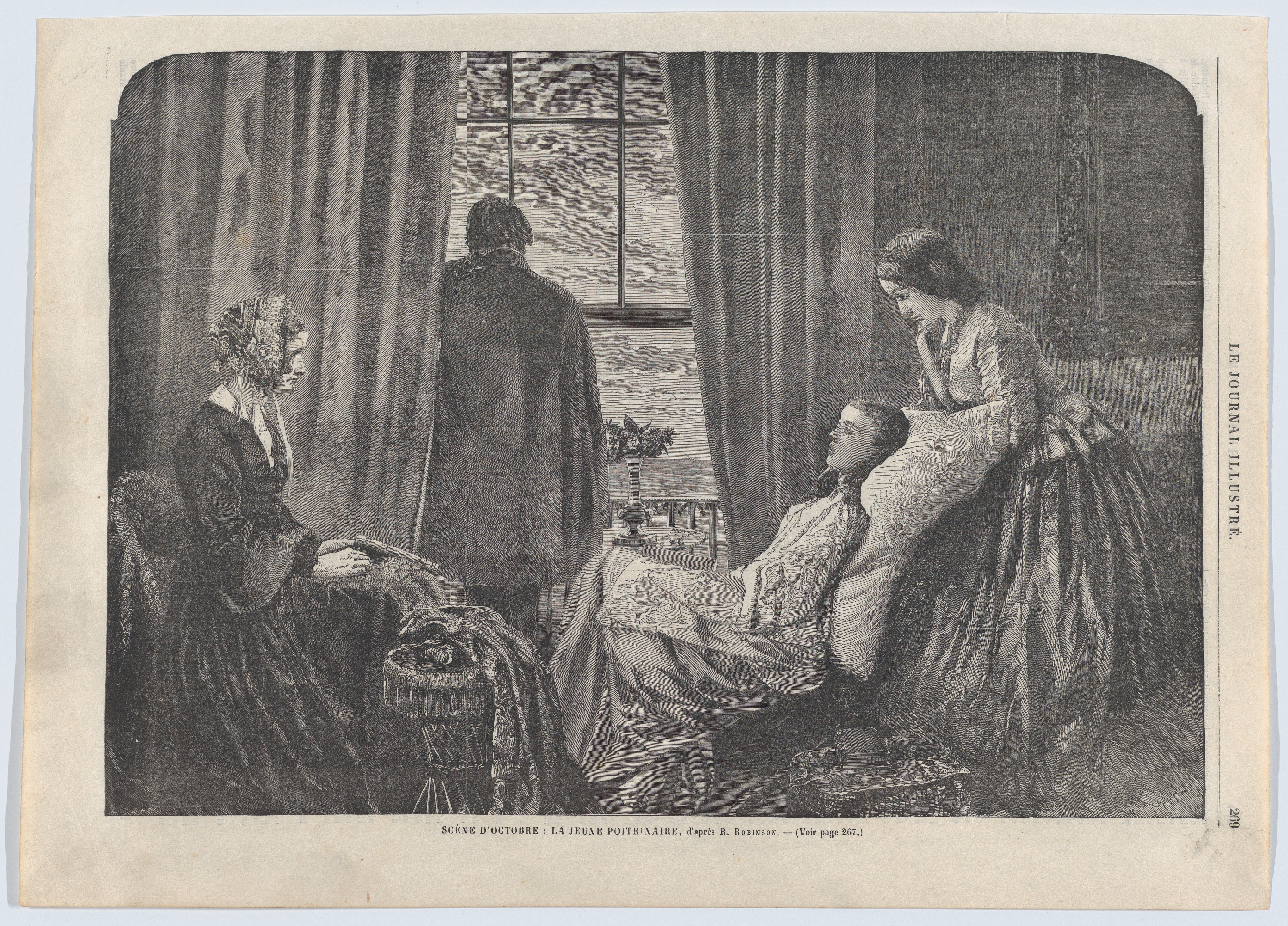 Print; Prints